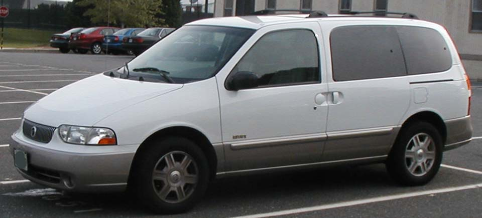 2001-2002 Mercury villagerNEXTgeneration photographed in USA.